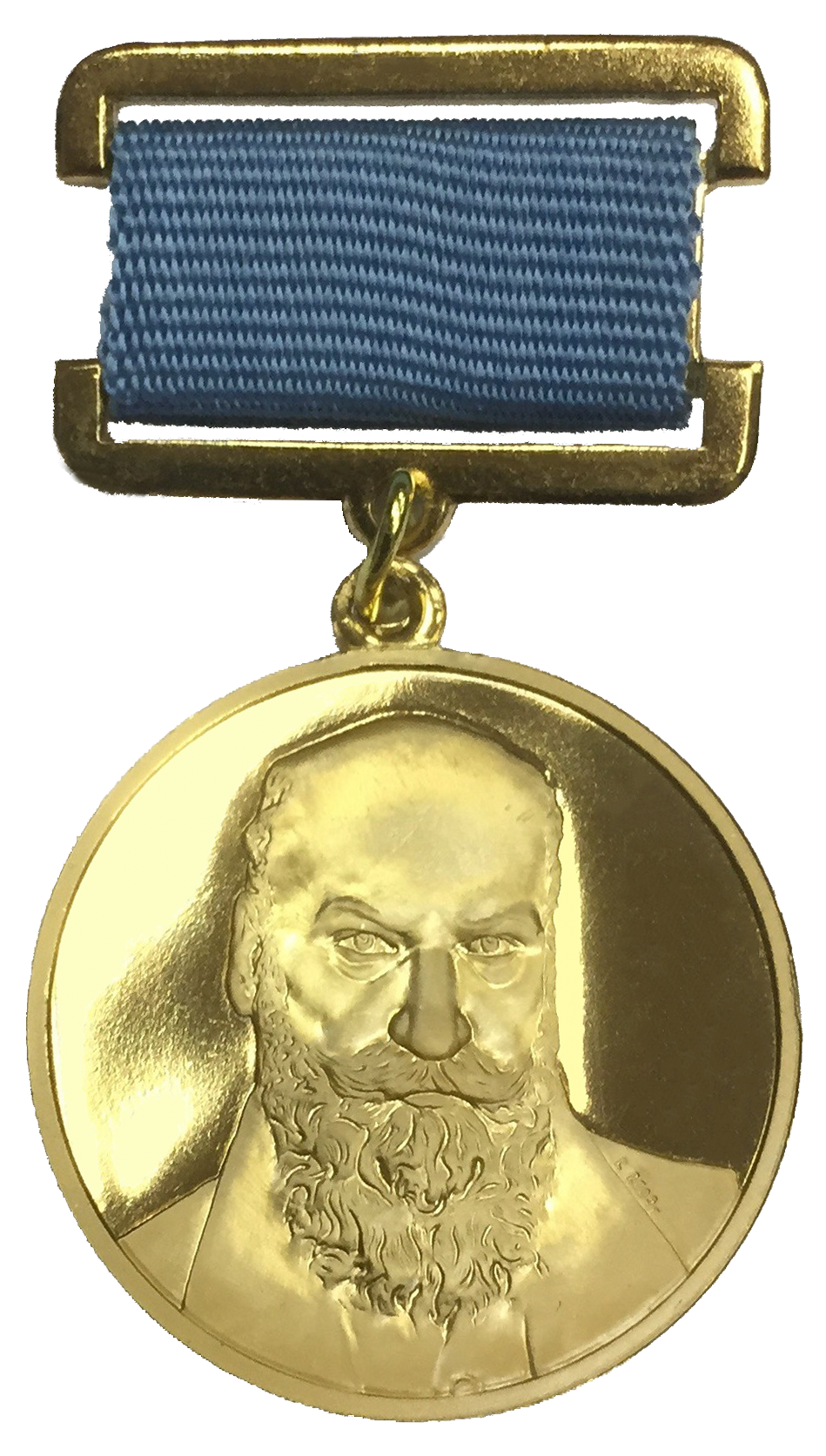 Breast badge of the N. E. Zhukovsky Prize laurel